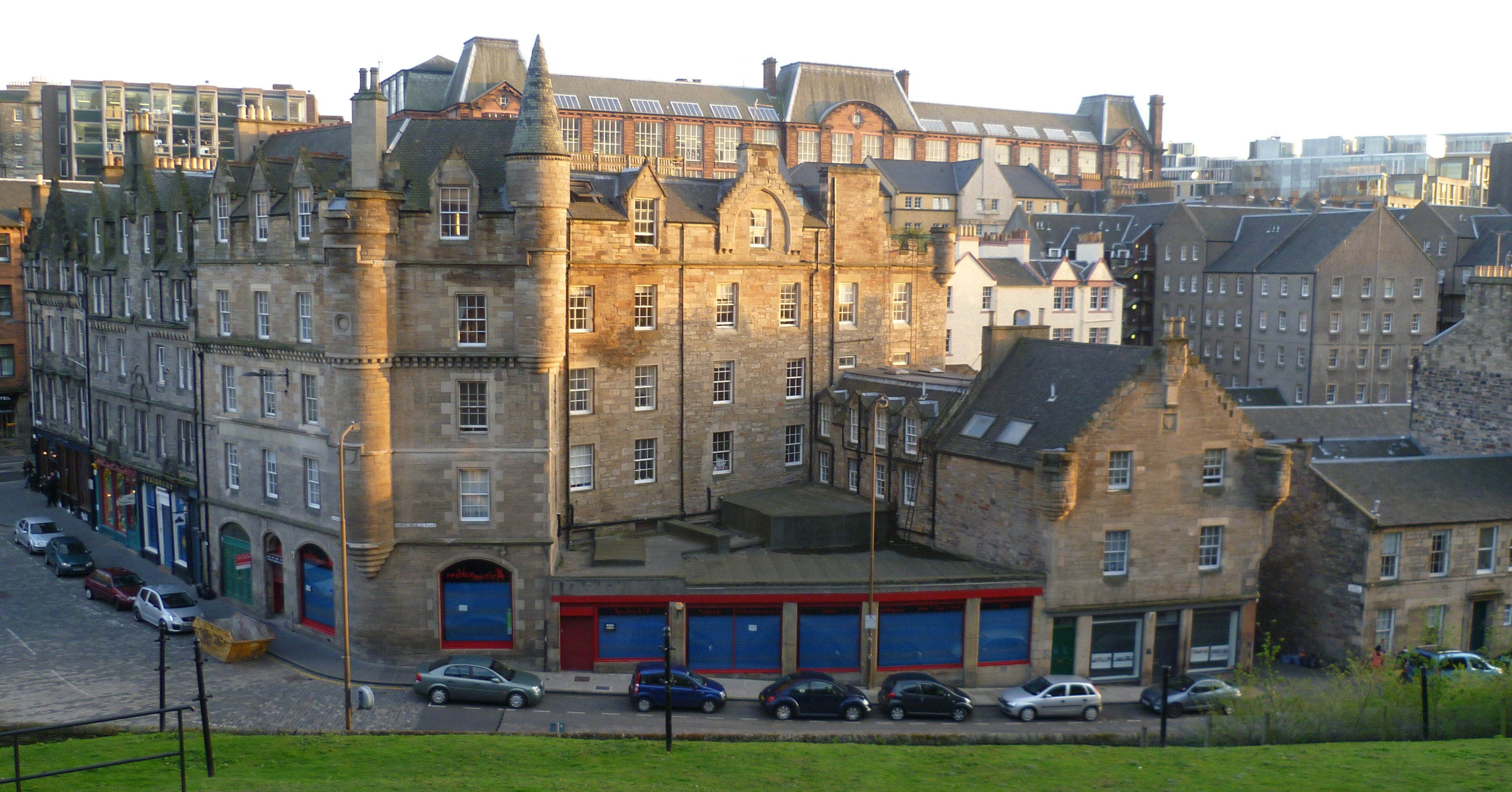 The West Port area, 2011